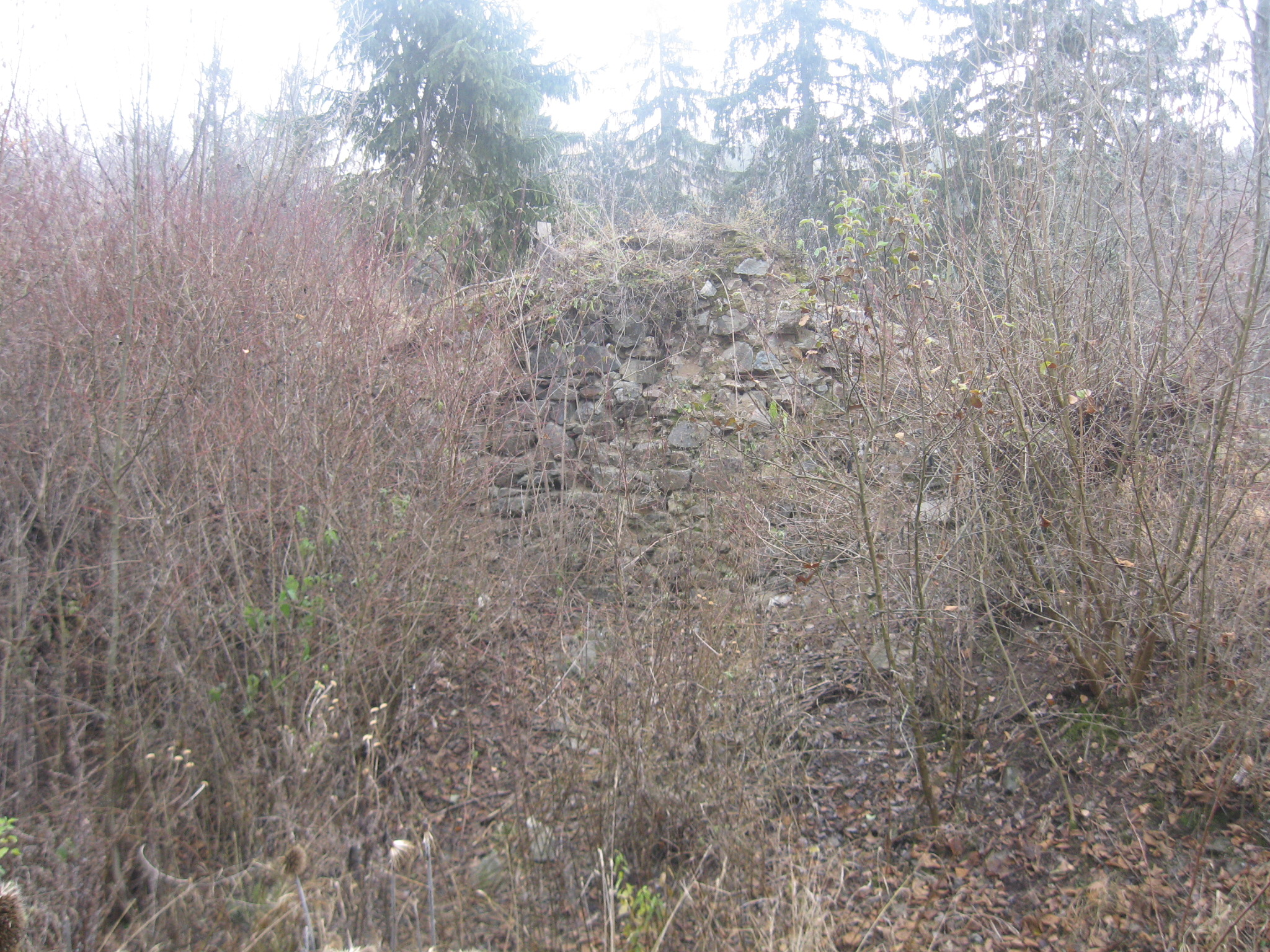 Kožlí Castle - the Wall